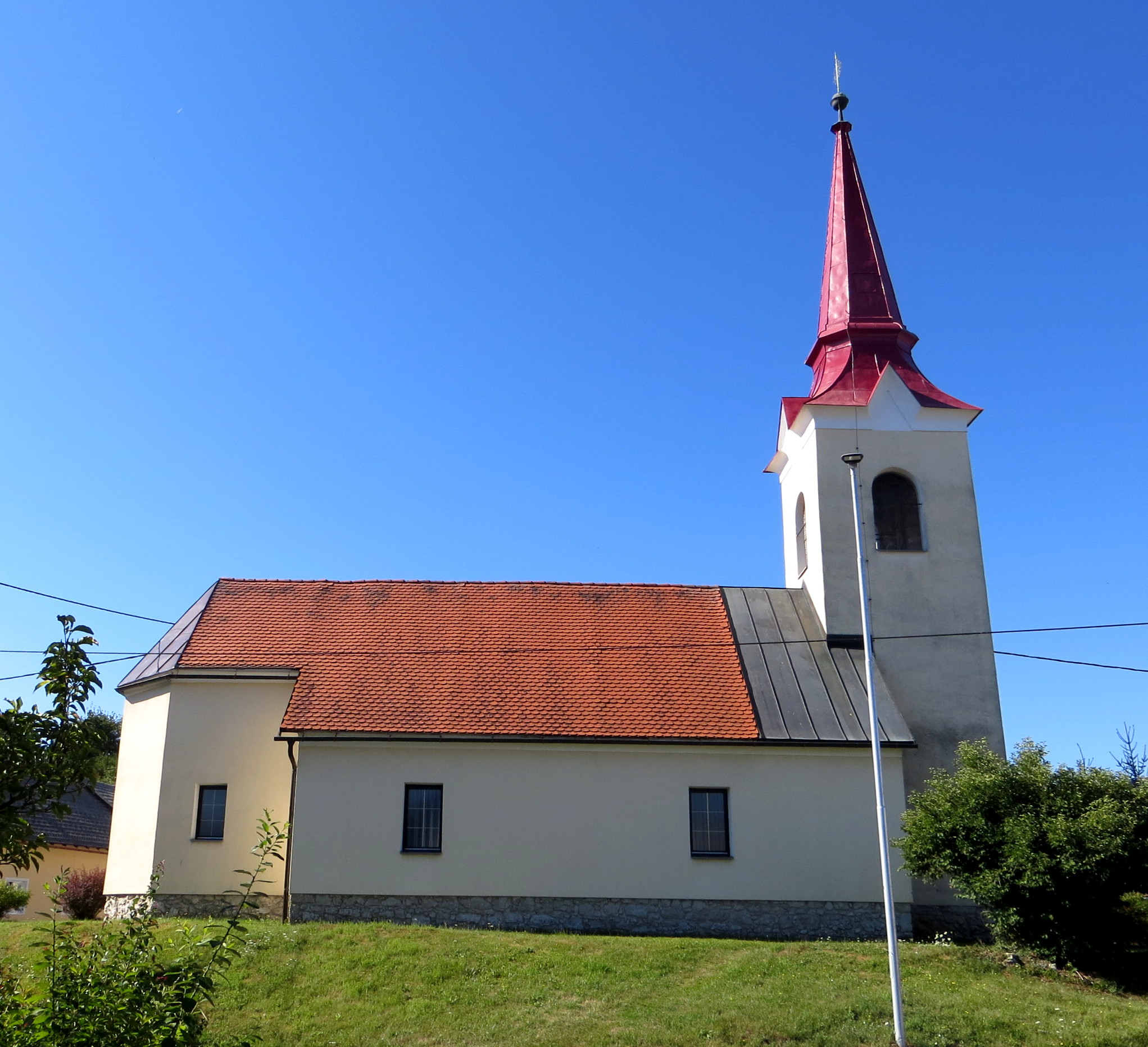 Saint Lawrence's Church in Željne, Municipality of Kočevje, Slovenia